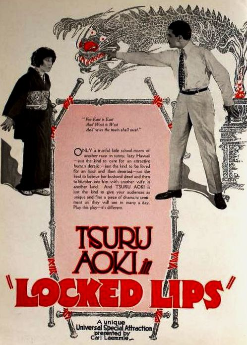 Advertisement for the American film Locked Lips (1920) with Tsuru Aoki and Stanhope Wheatcroft, on page 3788 of the May 1, 1920 Motion Picture News.